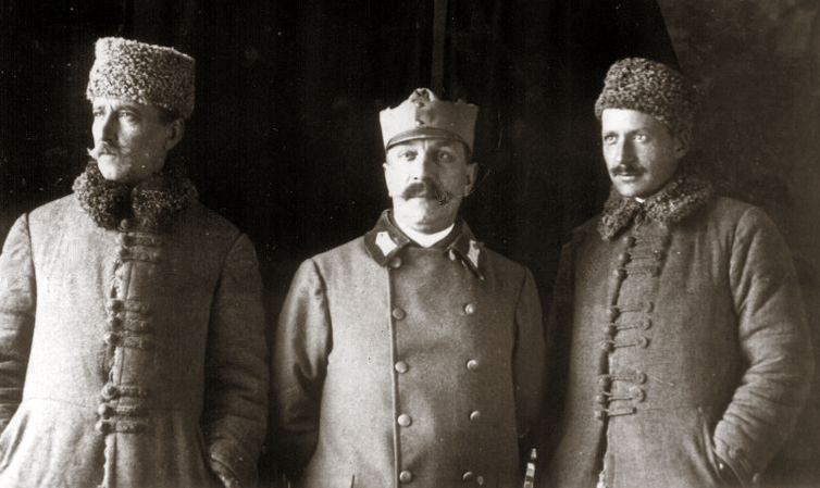 From left to right: NN, Stefan Buchowiecki (1863-1927), Polish physician, general of the Polish Army and Antoni Mińkiewicz (1881-1920), minister of provisioning in Polish government 1918-1920